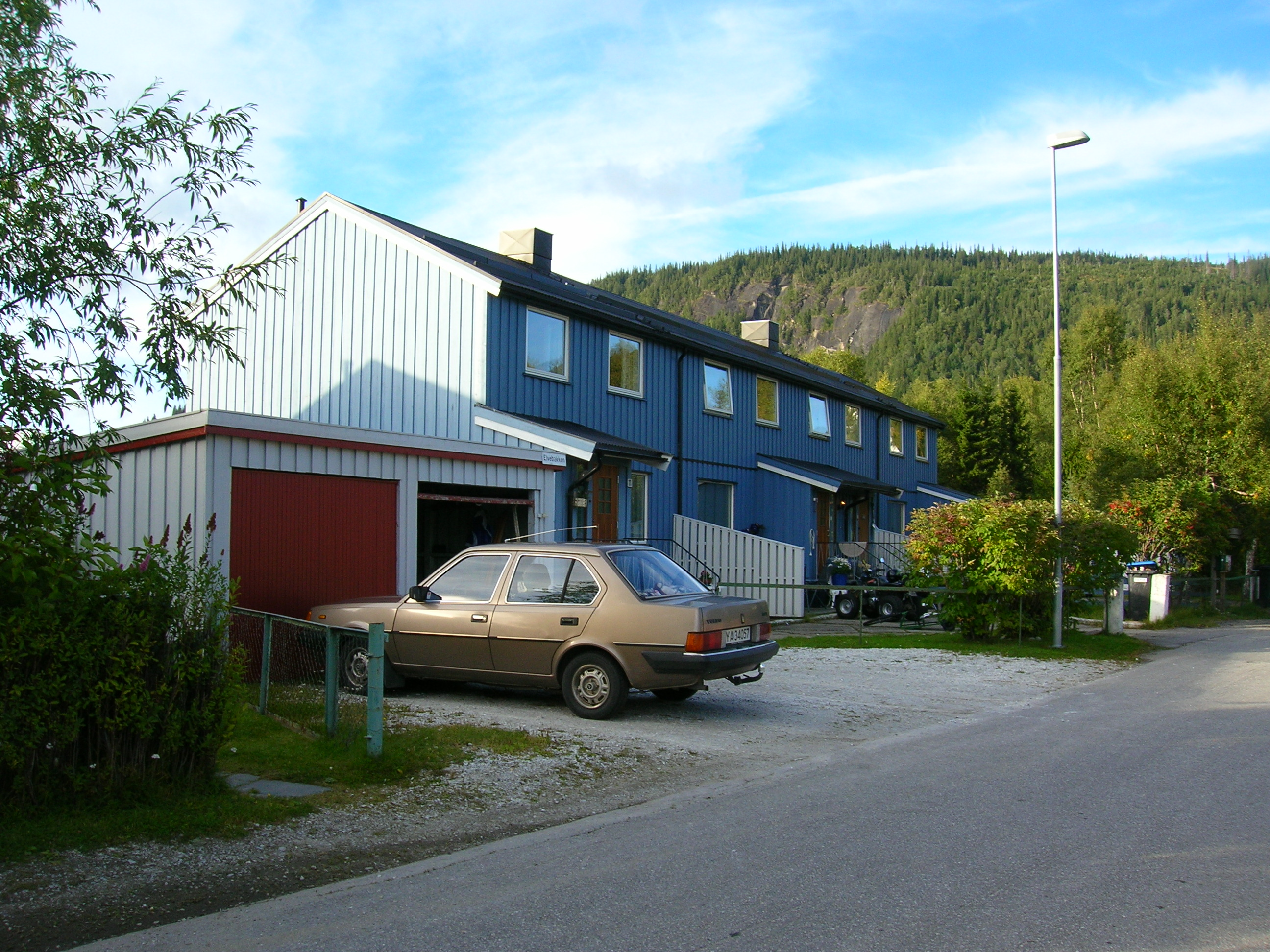 Selfors housing cooperative on Selfors, north of Mo i Rana, Rana municipality, county of Nordland, Norway, Photo 4 September, 2007 with a Nikon Coolpix 5600 5,1 Megapixel camera.